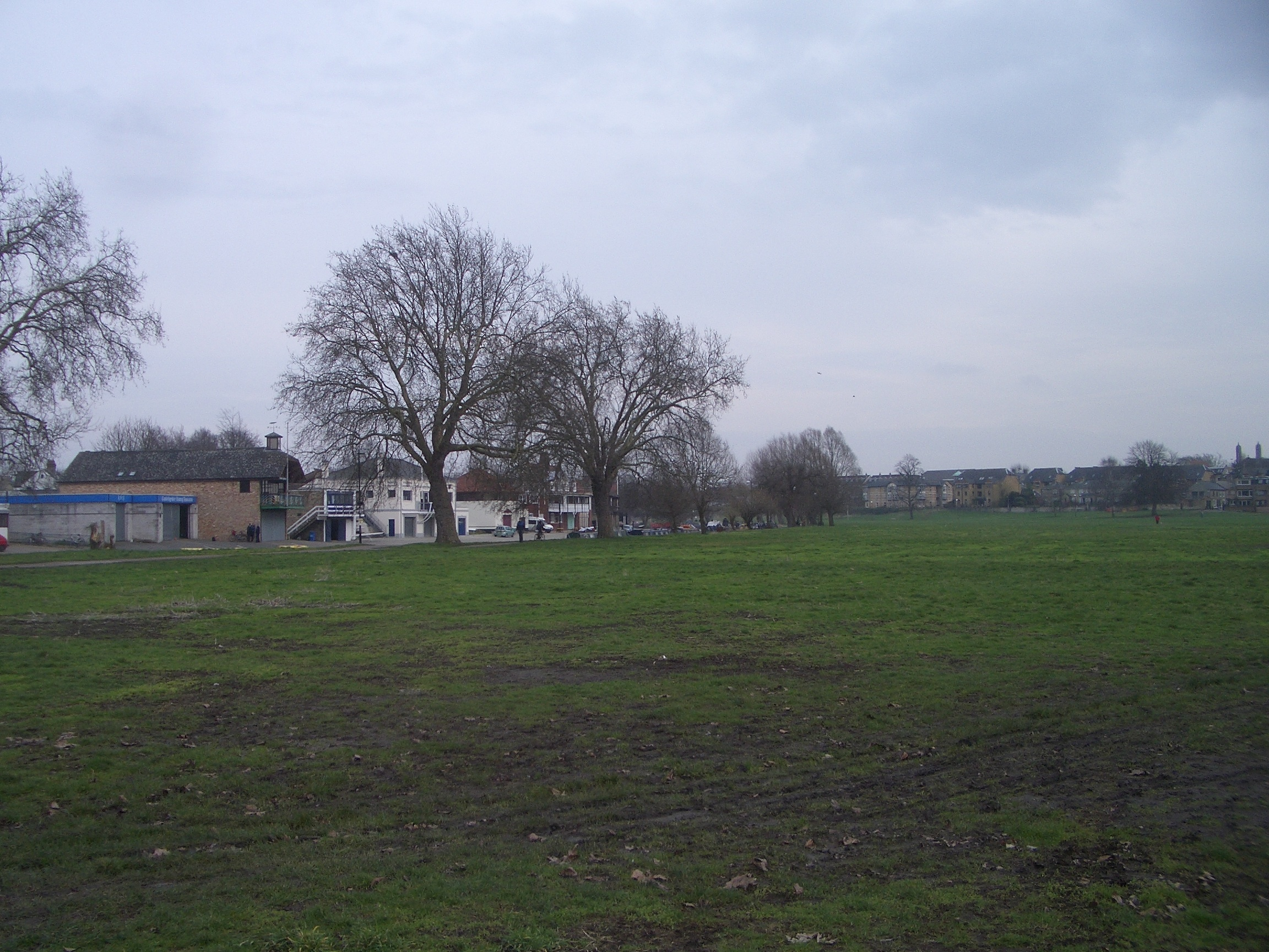 A view of part of Midsummer Common, Cambridge, UK taken in February 2007. The rowing boathouses are on the opposite bank of the river Cam. Residential houseboats - mainly narrow boats are visible on the near bank.